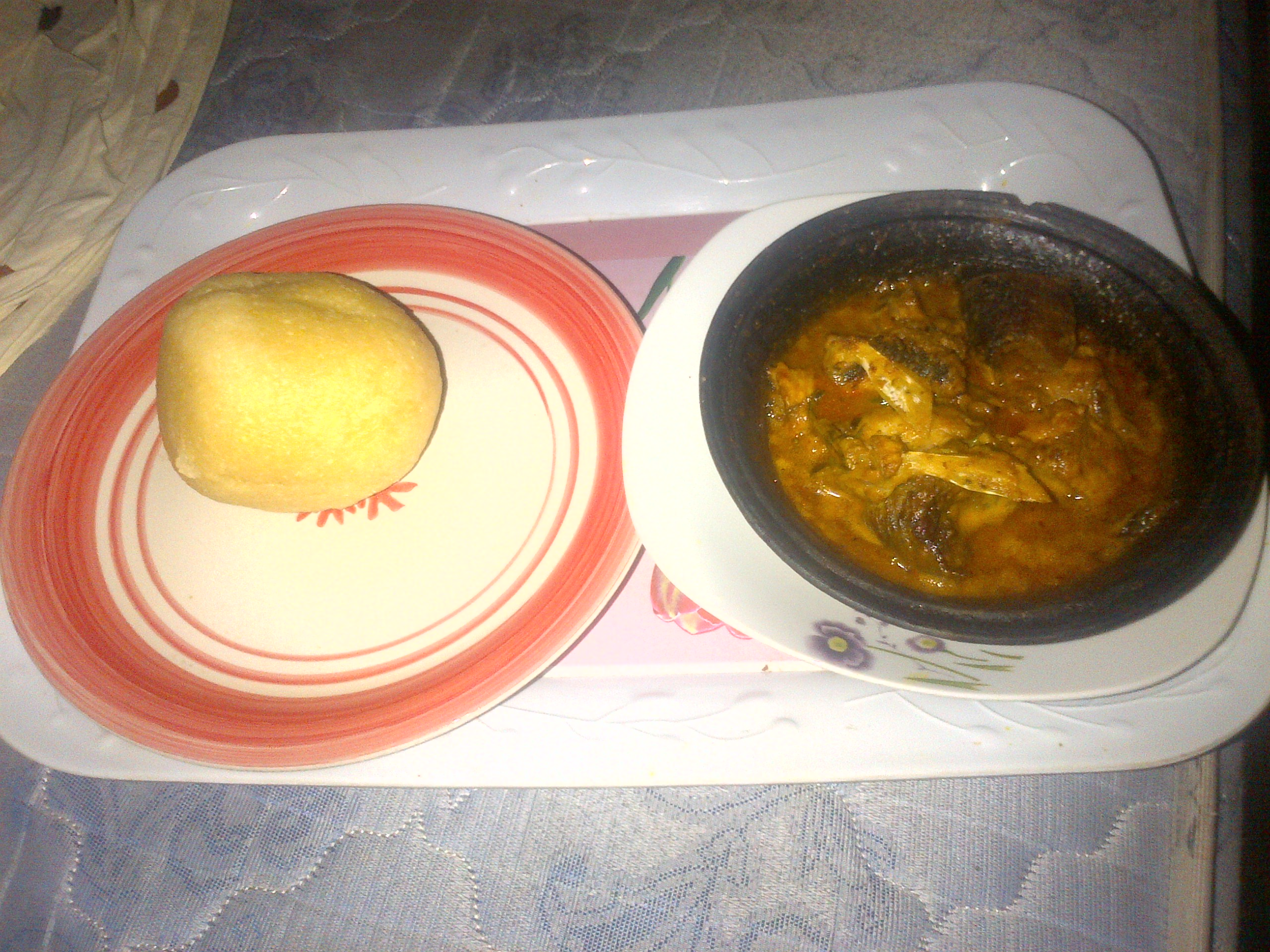 Eba (Garri from Cassava) served with Fresh fish banga (Palm Kennel) soup in a clay pot This is an image of food from Nigeria